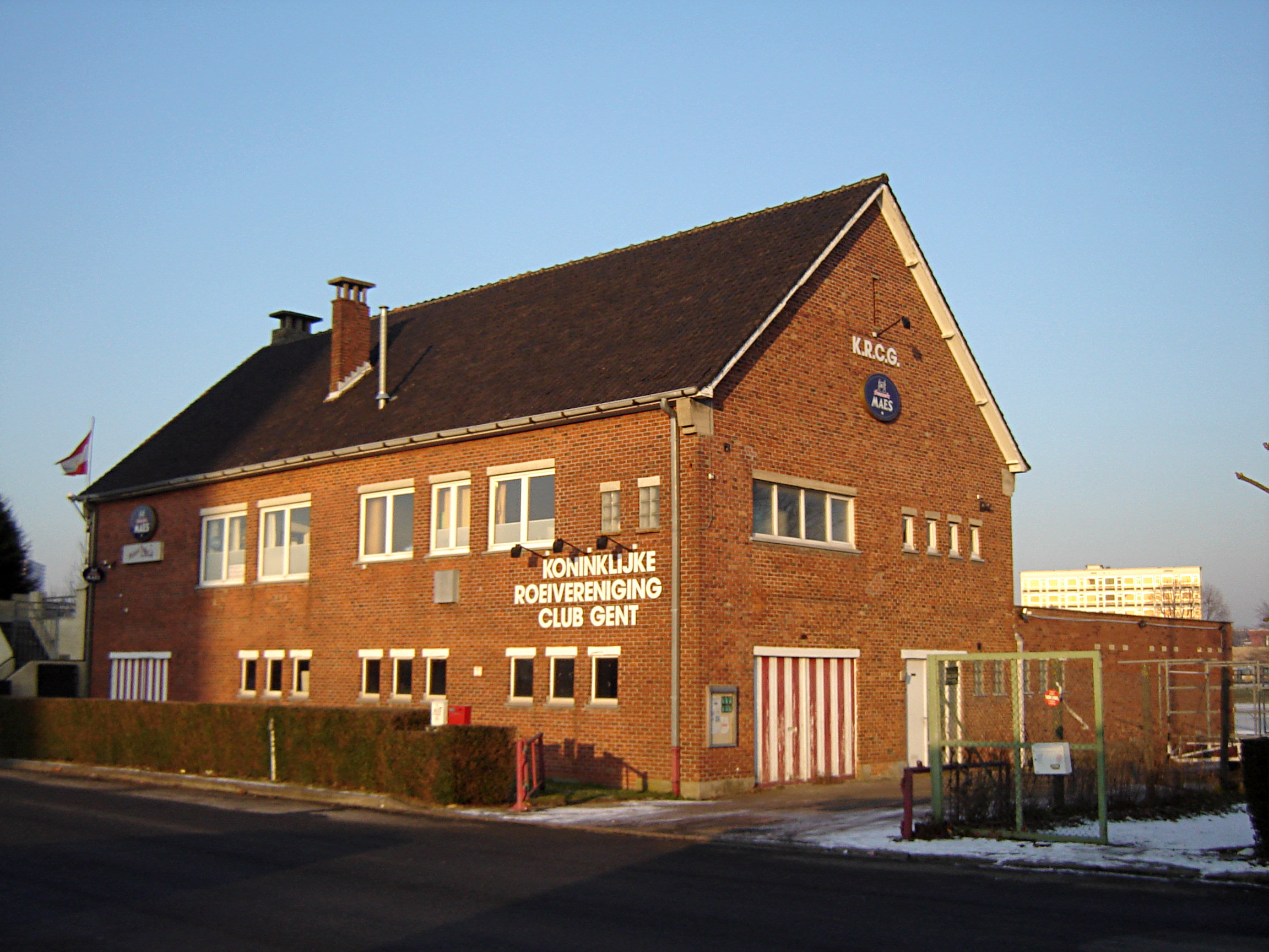 Koninklijke Roeivereniging Club Gent (Royal Rowing Club). Gent, East Flanders, Belgium